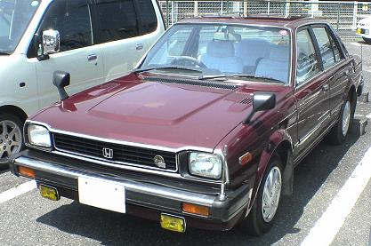 A 1980 Honda Ballade in the Saitama Prefecture, Japan.